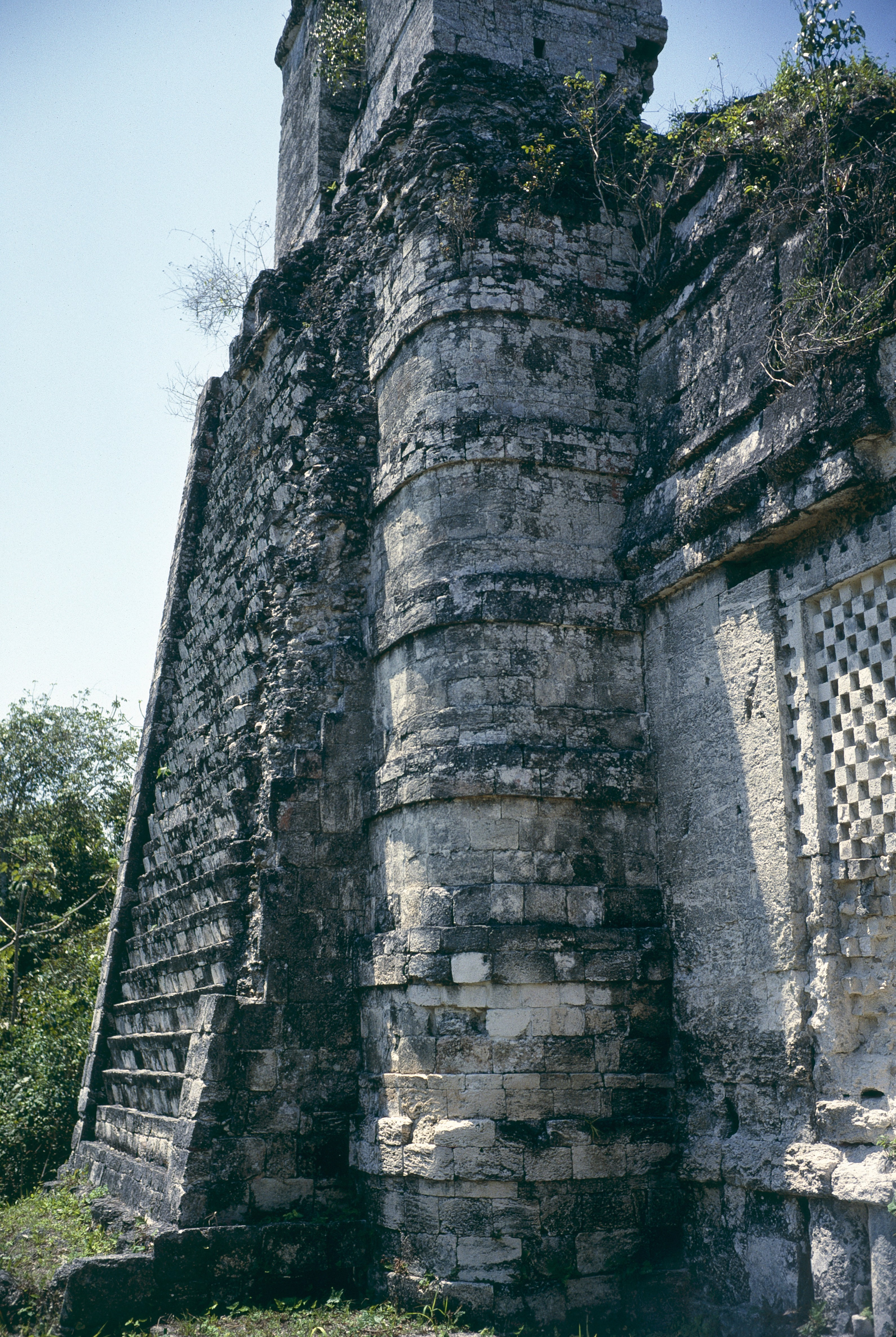 Río Bec, Campeche, Mexico: Group B, stairs of west tower